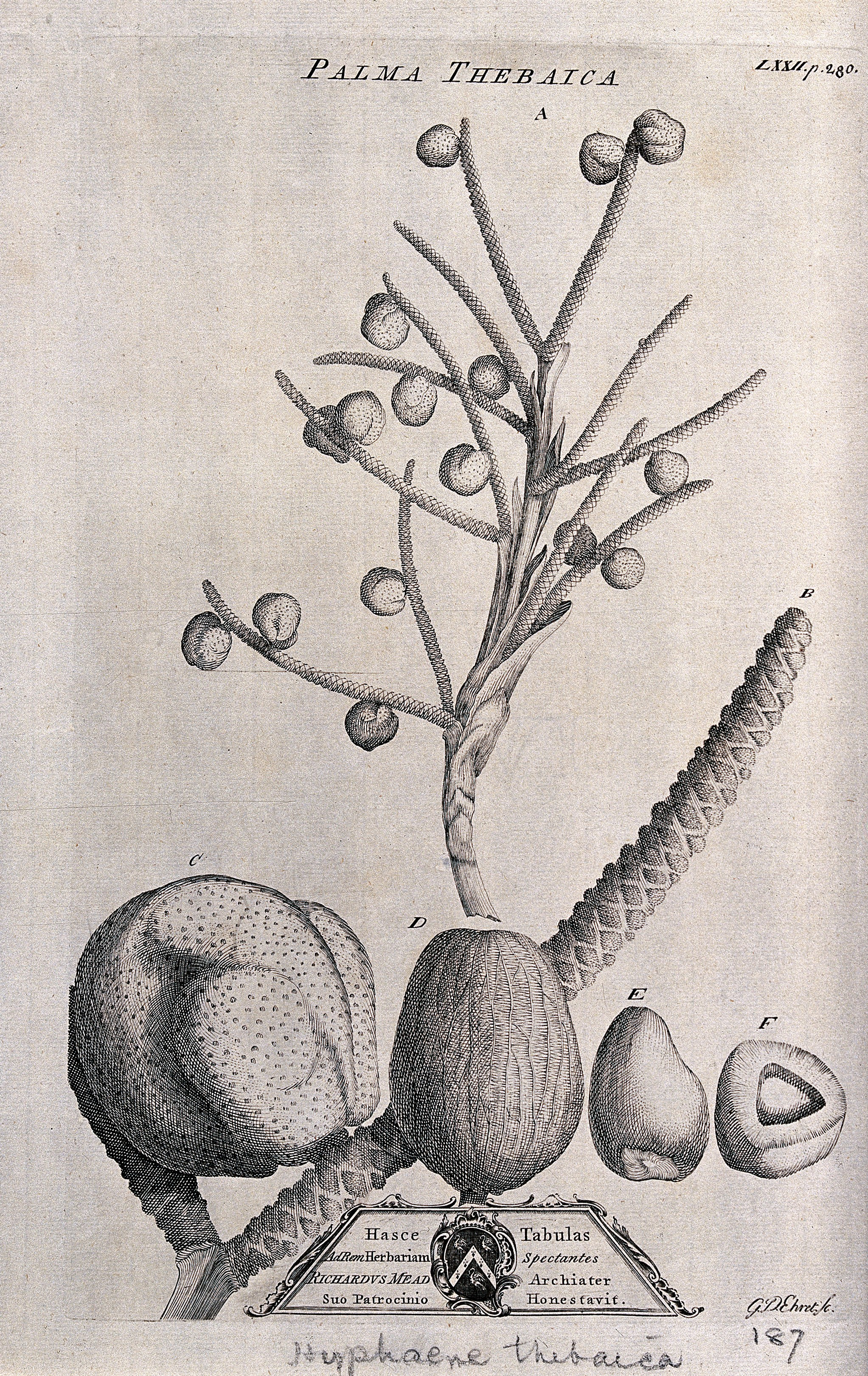 Doum palm (Hyphaene thebaica (L.) C.Martius): fruiting stem and fruit segments. Etching by G. D. Ehret, c. 1743, after himself. Iconographic Collections Keywords: Georg Dionysius Ehret; Richard Mead; Richard Pococke